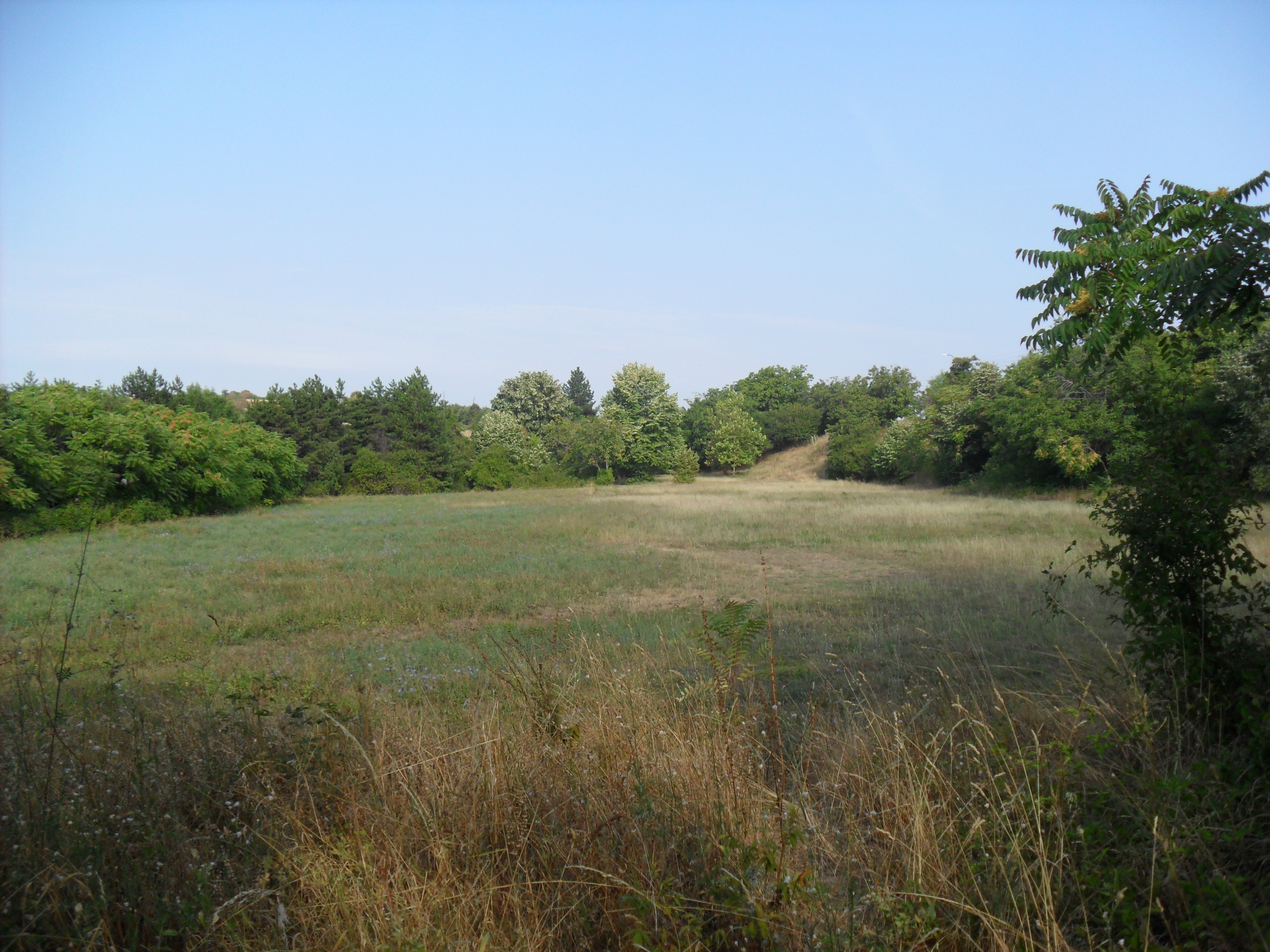 The stadium in Vishovgrad